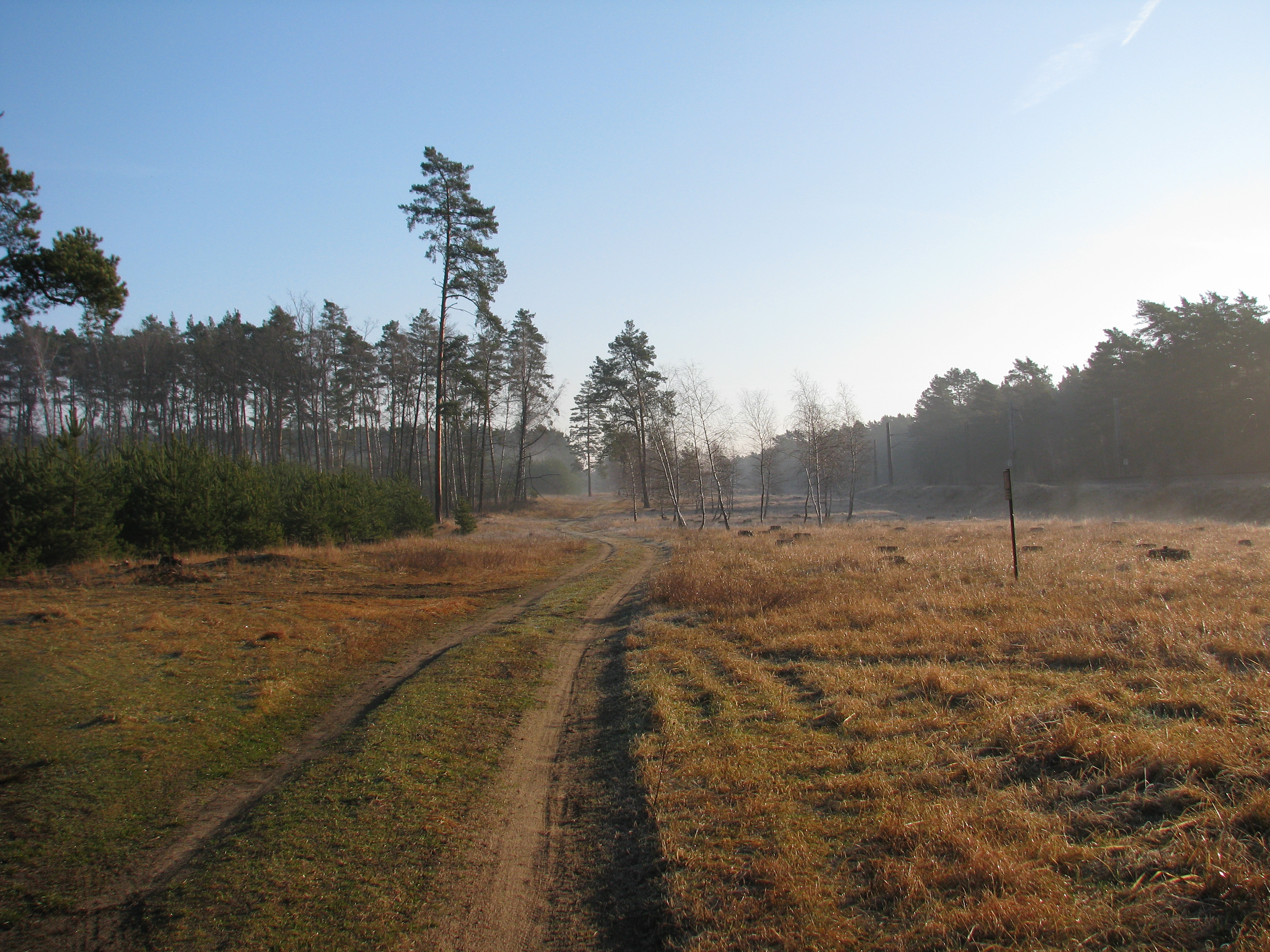 Váté písky in winter in morning